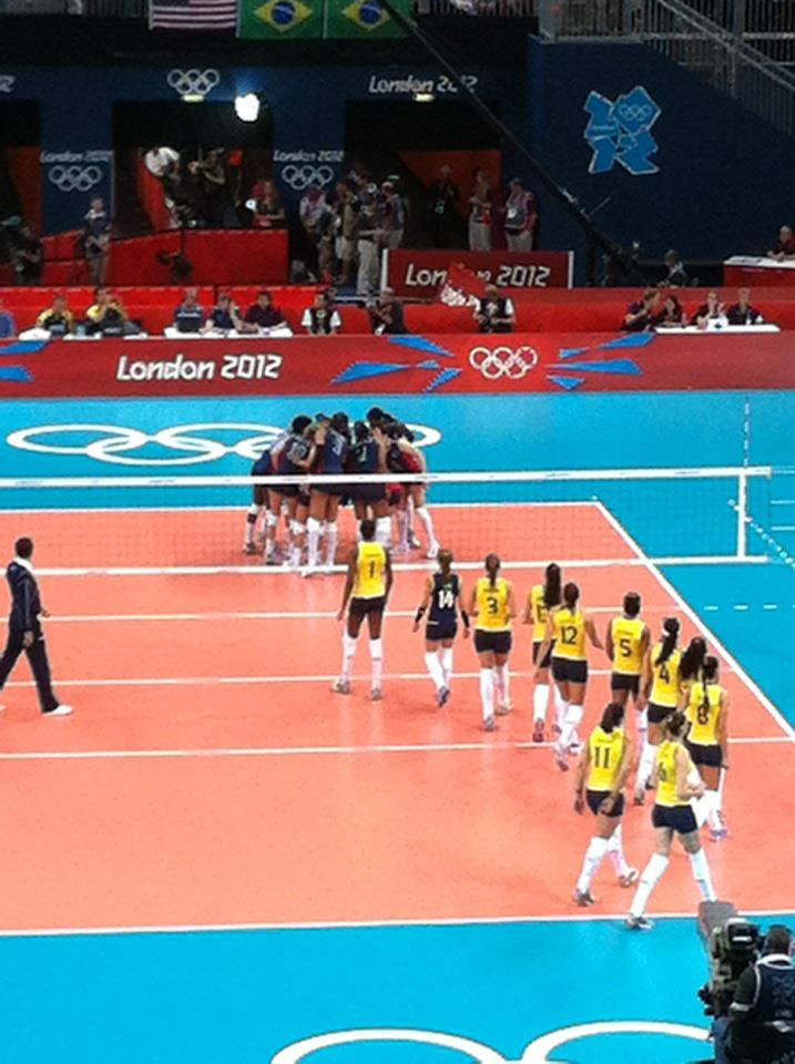 Start of the female volleyball final between USA and Brasil at London 2012